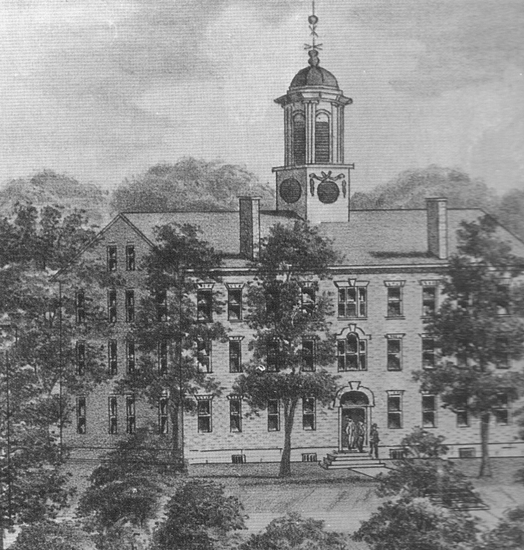 The College Edifice was first completed in 1818 and later was renamed Manasseh Cutler Hall